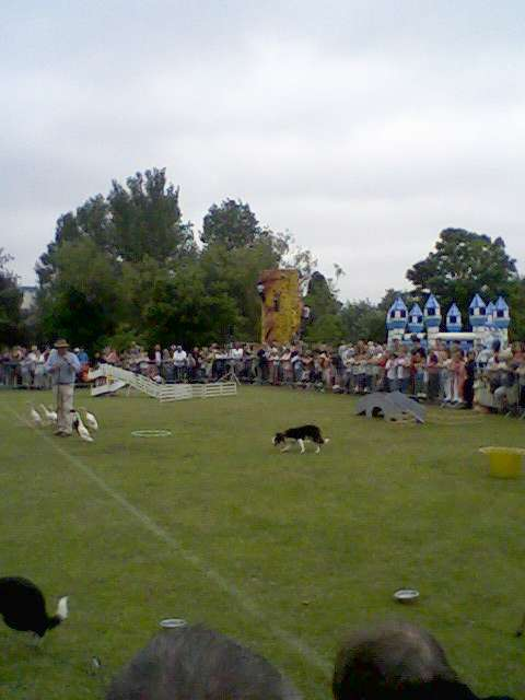 Sheepdog demonstration at Knightswood Gala Day, bouncy castles and climbing wall in background. Knightswood Park, Glasgow, UK, 27th June 2009.